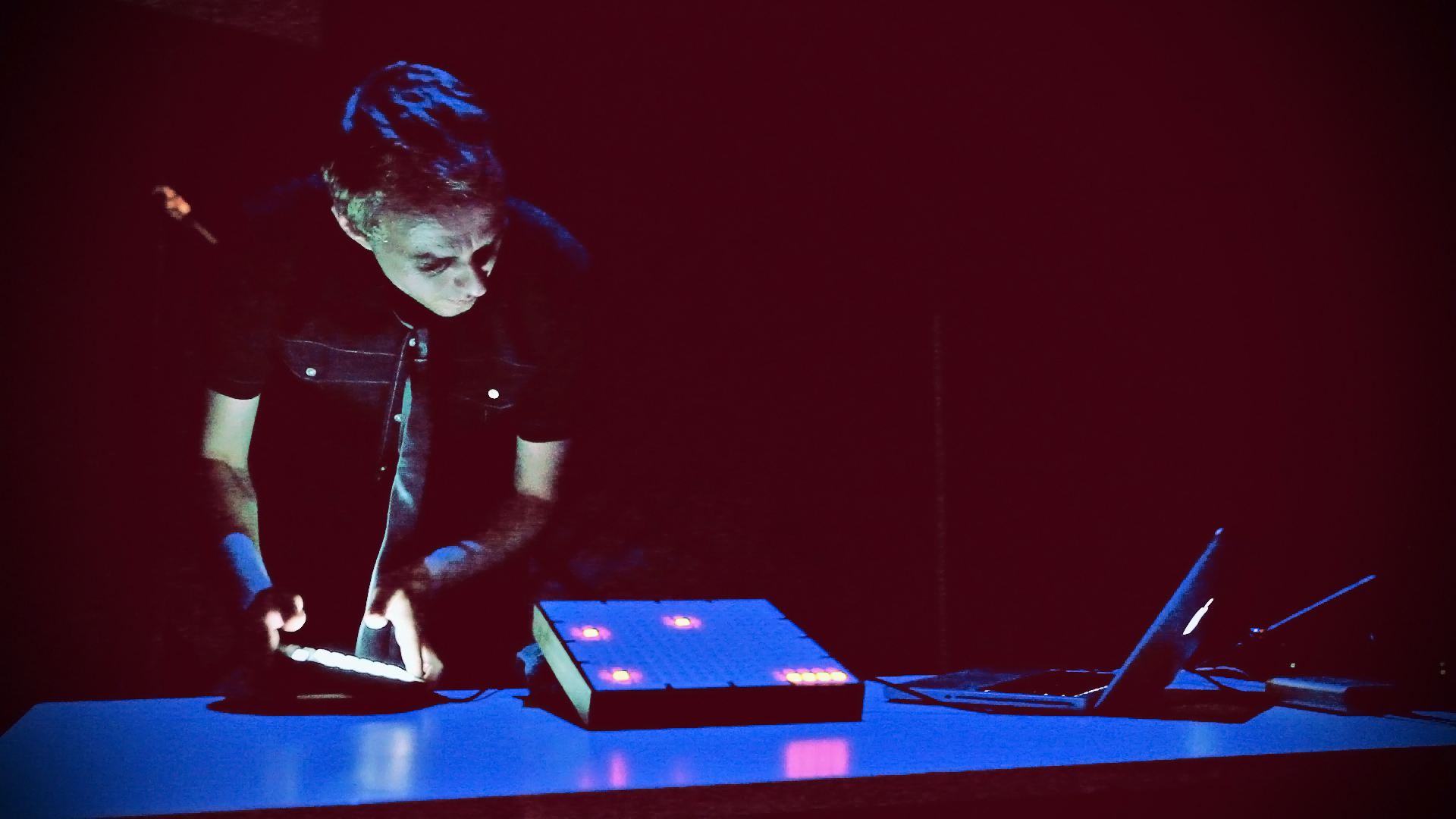 Live at Tabacka Kulturfabrik, Kosice (Slovakia) 2011